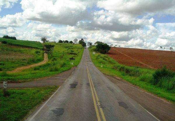 Trecho entre Itapetininga e Ourinhos